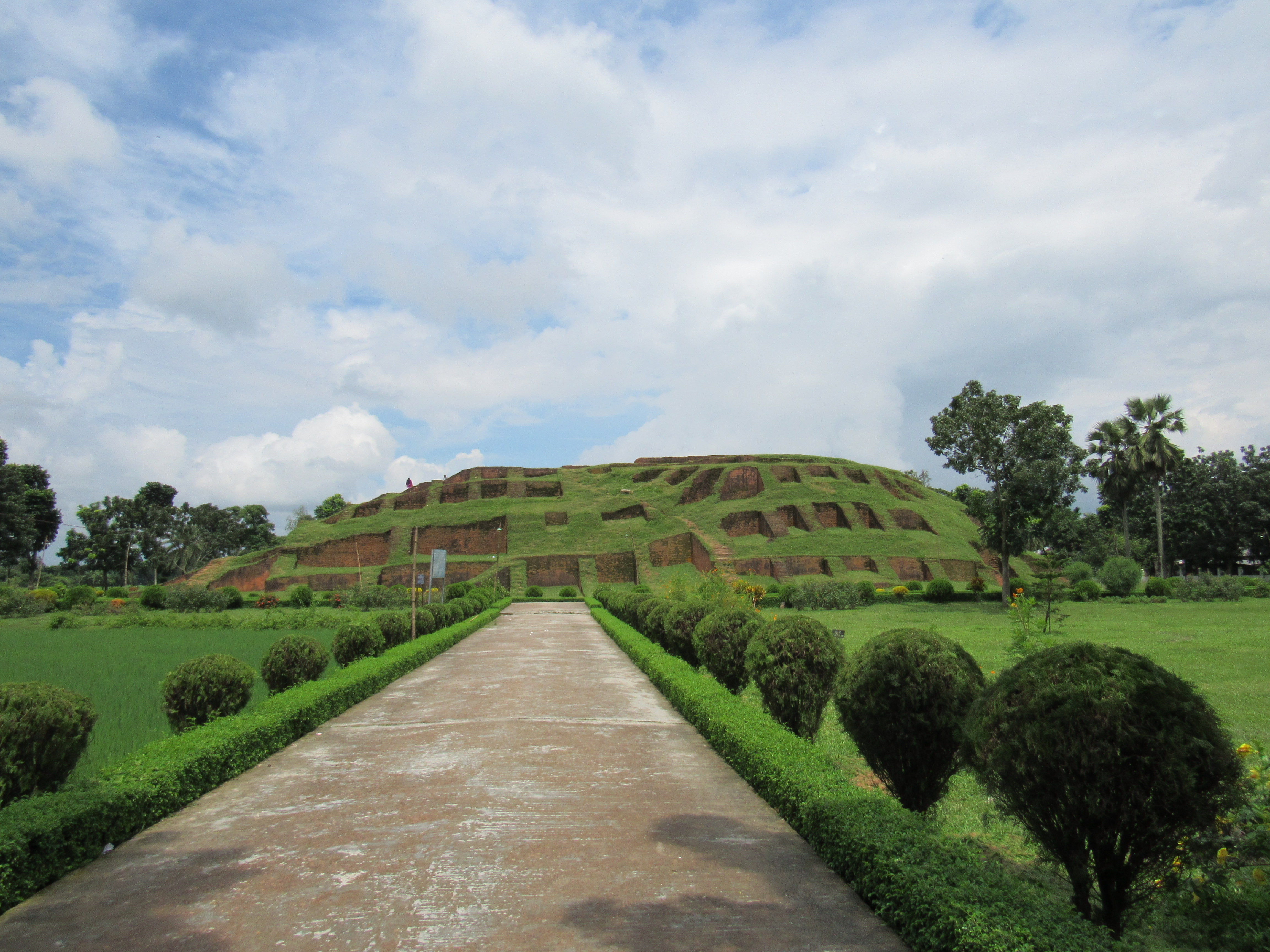 Gokul Medh, Bogra, September 2016